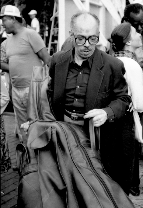 George Duvivier, Greenwich Village Jazz Festival, Washington Square Park, New York, summer 1984. Playing w/Dizzy Gillespie, Benny Carter, Cecil Payne and others. Photo by Brian McMillen} /